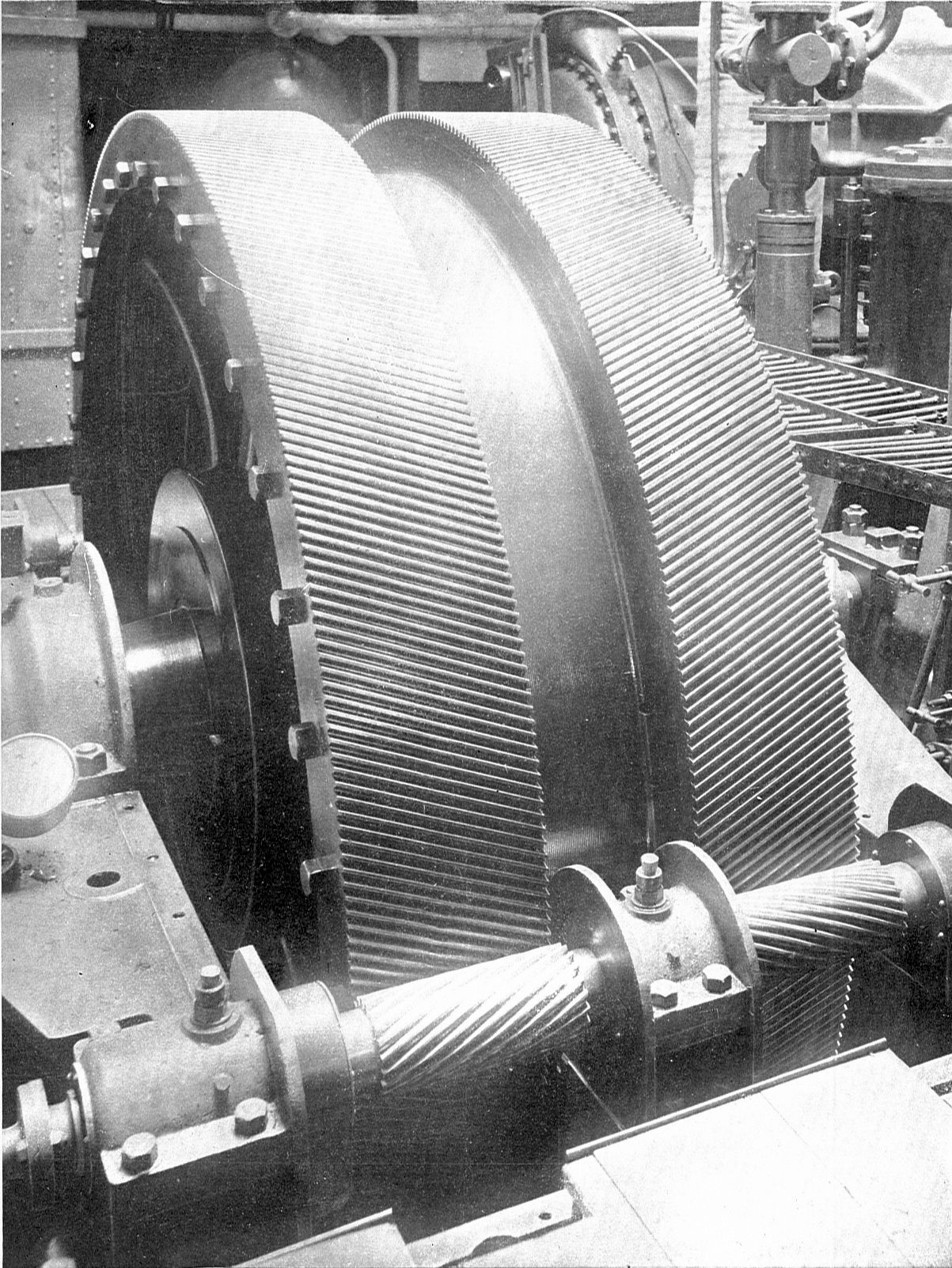 Parsons' helical wheel gearing Reduction gearing to couple a high-speed marine steam turbine to a ship's propeller shaft. Used on board SS Vespasian. Ratio 20:1